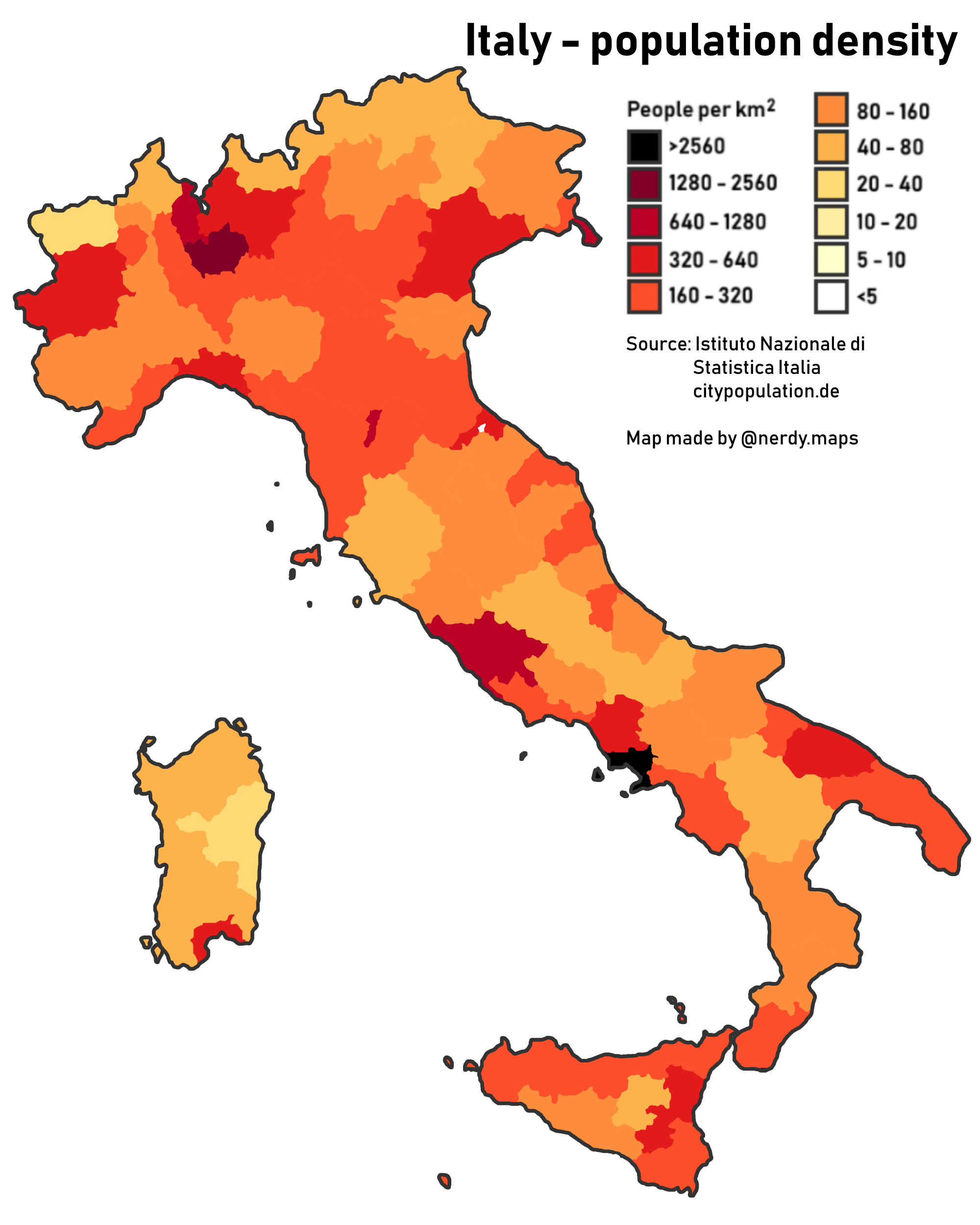 A map representing the population density in Italy by province